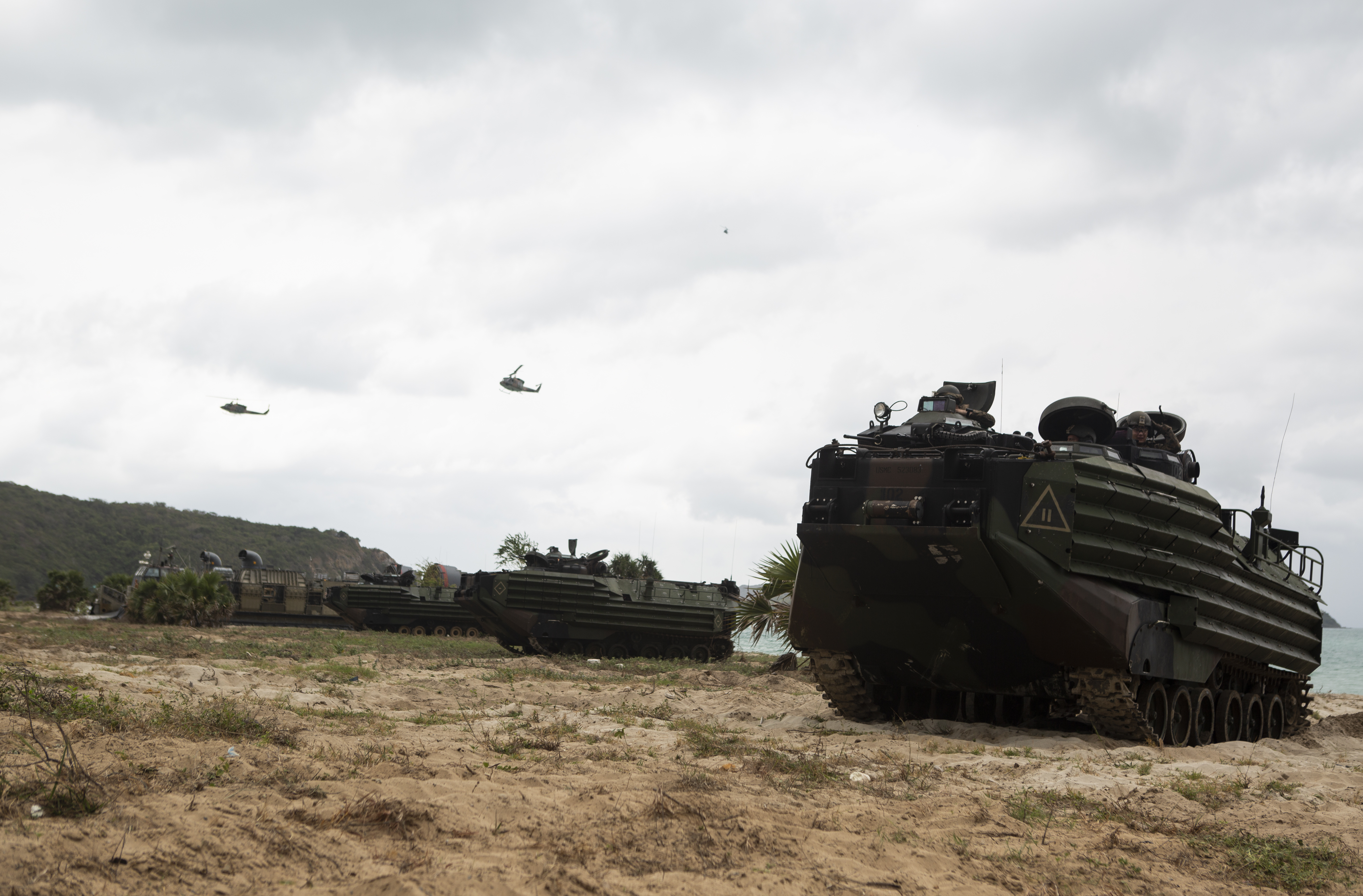 U.S. Marines with Alpha Company, Battalion Landing Team, 1st Battalion, 5th Marine Regiment, standby in assault amphibious vehicles during an amphibious beach landing as part of exercise Cobra Gold 2020 at Hat Yao Beach, Sattahip, Kingdom of Thailand, Feb. 28, 2020. Exercise Cobra Gold 20, in its 39th iteration, is designed to advance regional security and ensure effective responses to regional crises by bringing together multinational forces to address shared goals and security commitments in the Indo-Pacific region. (U.S. Marine Corps photo by Lance Cpl. Hannah Hall)